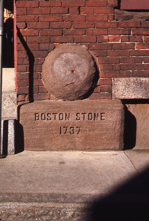 Title: Boston Stone, Marshall Street Creator: Peter H. Dreyer Date: 1975 November Source: Collection 9800.007, Peter H. Dreyer slide collection File name: 9800007_205 Photographer: Peter H. Dreyer Rights: Public Domain, Please credit Peter H. Dreyer Citation: Peter H. Dreyer slide collection, Collection #9800.007, City of Boston Archives, Boston